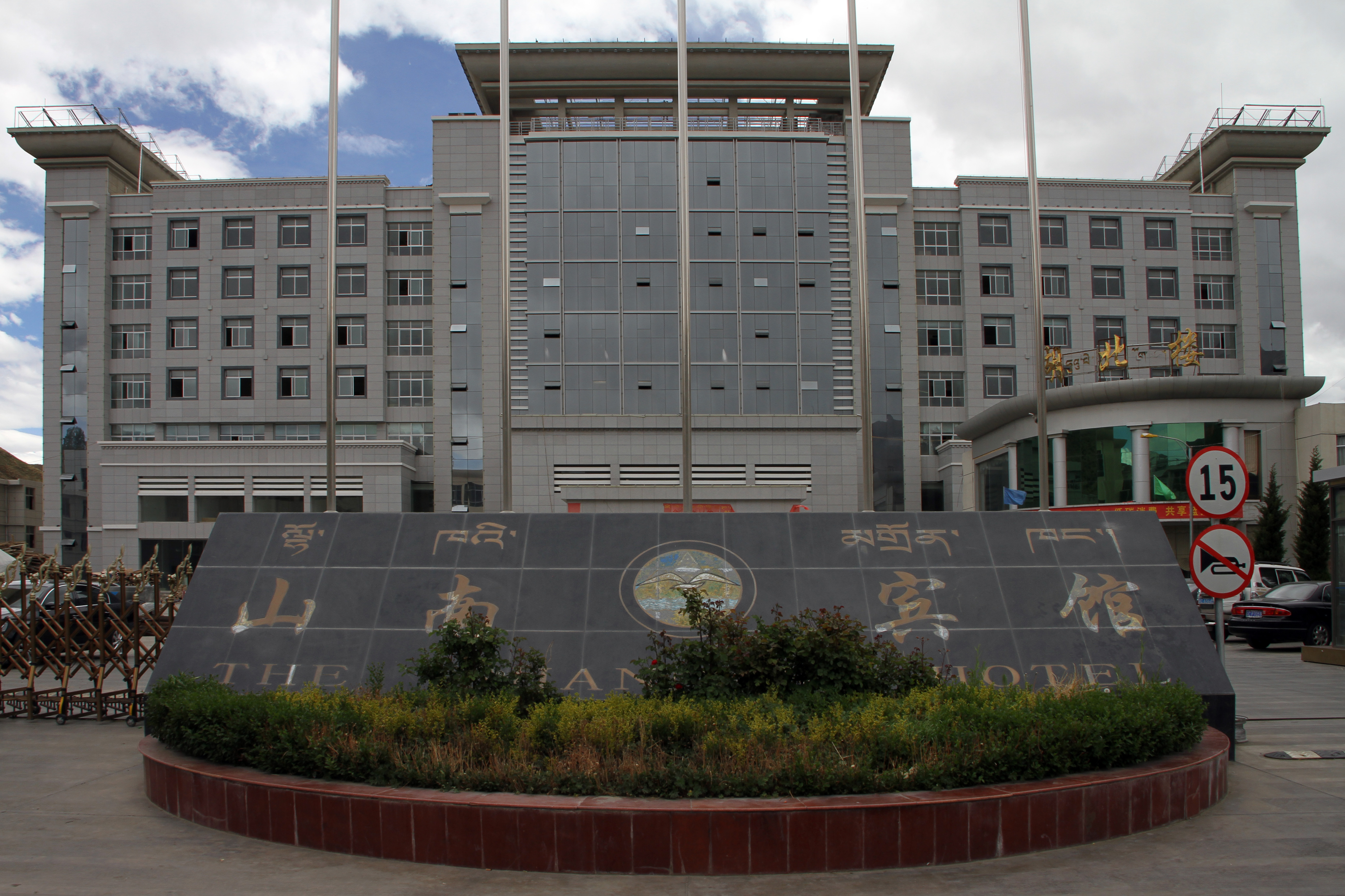 Tsetang, Nedong county, Shannon prefecture, in Tibet